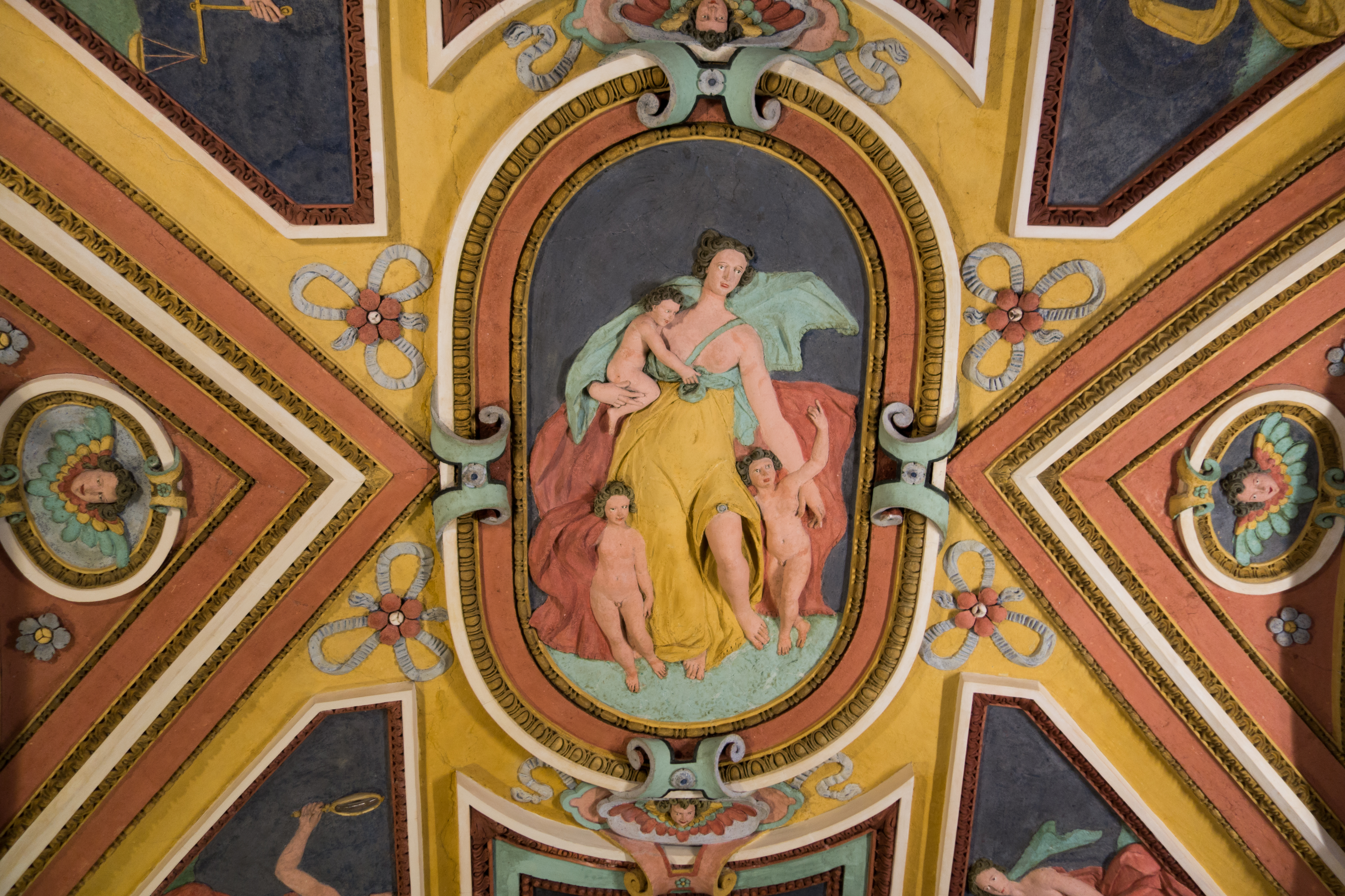 Austria